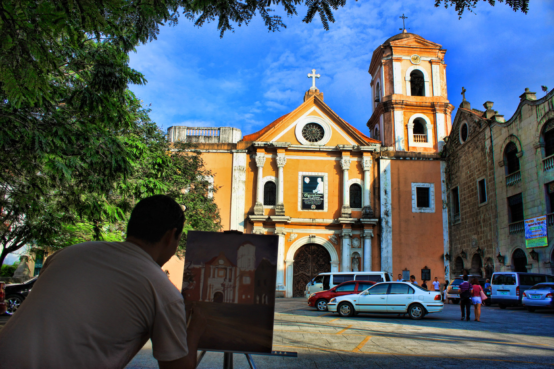 In 1993, San Agustin Church was one of four Philippine churches constructed during the Spanish colonial period to be designated as a World Heritage Site by UNESCO, under the collective title Baroque Churches of the Philippines. It was named a National Historical Landmark by the Philippine government in 1976